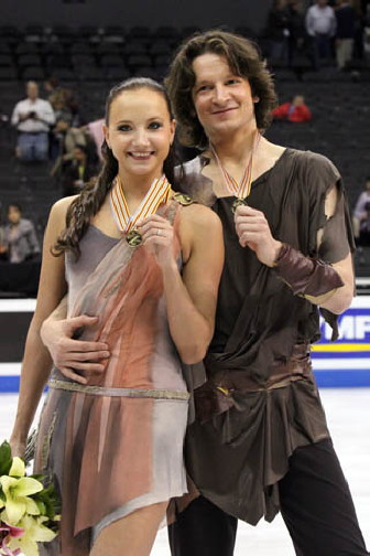 Oksana DOMNINA and Maxim SHABALIN (Rus) during the medals ceremony at the 2009 World Figure Skating Championships.